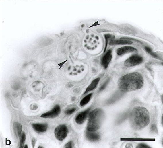 Chytridiomycosis. Ventral skin of upper hind limb of Atelopus varius from western Panama. Two sporangia (spore-containing bodies of Batrachochytrium sp.) containing numerous zoospores are visible within cells of the stratum corneum. Each flask-shaped sporangium has a single characteristic discharge tube (arrow) at the skin surface. Exiting zoospores are visible in the discharge tubes of both sporangia. Hyperkeratosis is minimal in this acute infection. Tissues were fixed in neutral-buffered 10% formalin, paraffin-embedded, sectioned at 6 µm thick and stained with hematoxylin and eosin. Bar = 35 µm.